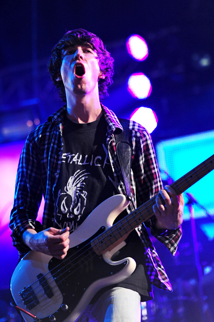 Southbound Festival 2011